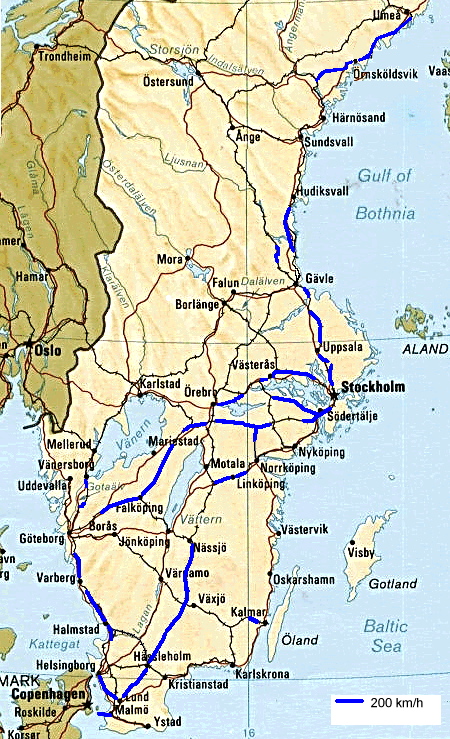 Map of Swedish railway lines having 200 km/h as maximum speed, and being used at that speed, as of end 2010.